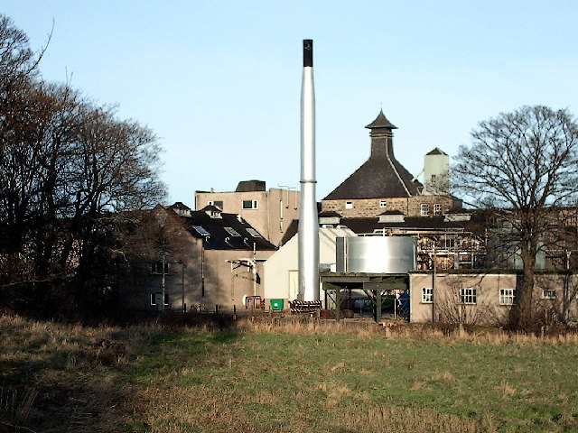 BenRiach Distillery near Elgin. This Distillery has an interesting recent history. Situated next to Longmorn it was sometime called Longmorn 2. Pernod acquired it in 2001. With 3 other distilleries it was working on a 3 month rotational basis, but was mothballed in 2002. Happily it was purchased by a private consortium in April 2004 and production continues.